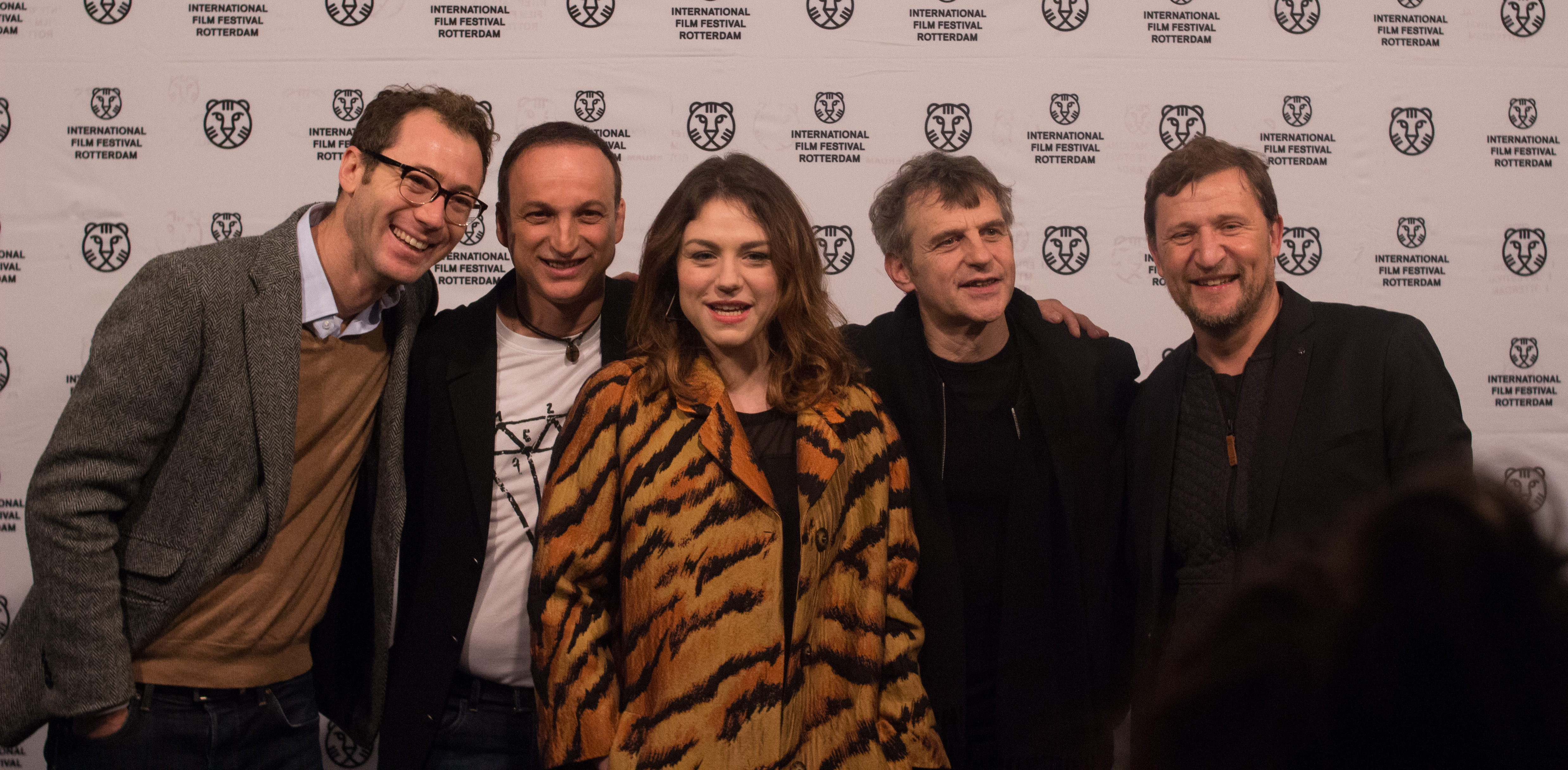 Lucas Belvaux, Émilie Dequenne and crew at the IFFR 2017 promoting the movie "This Is Our Land"